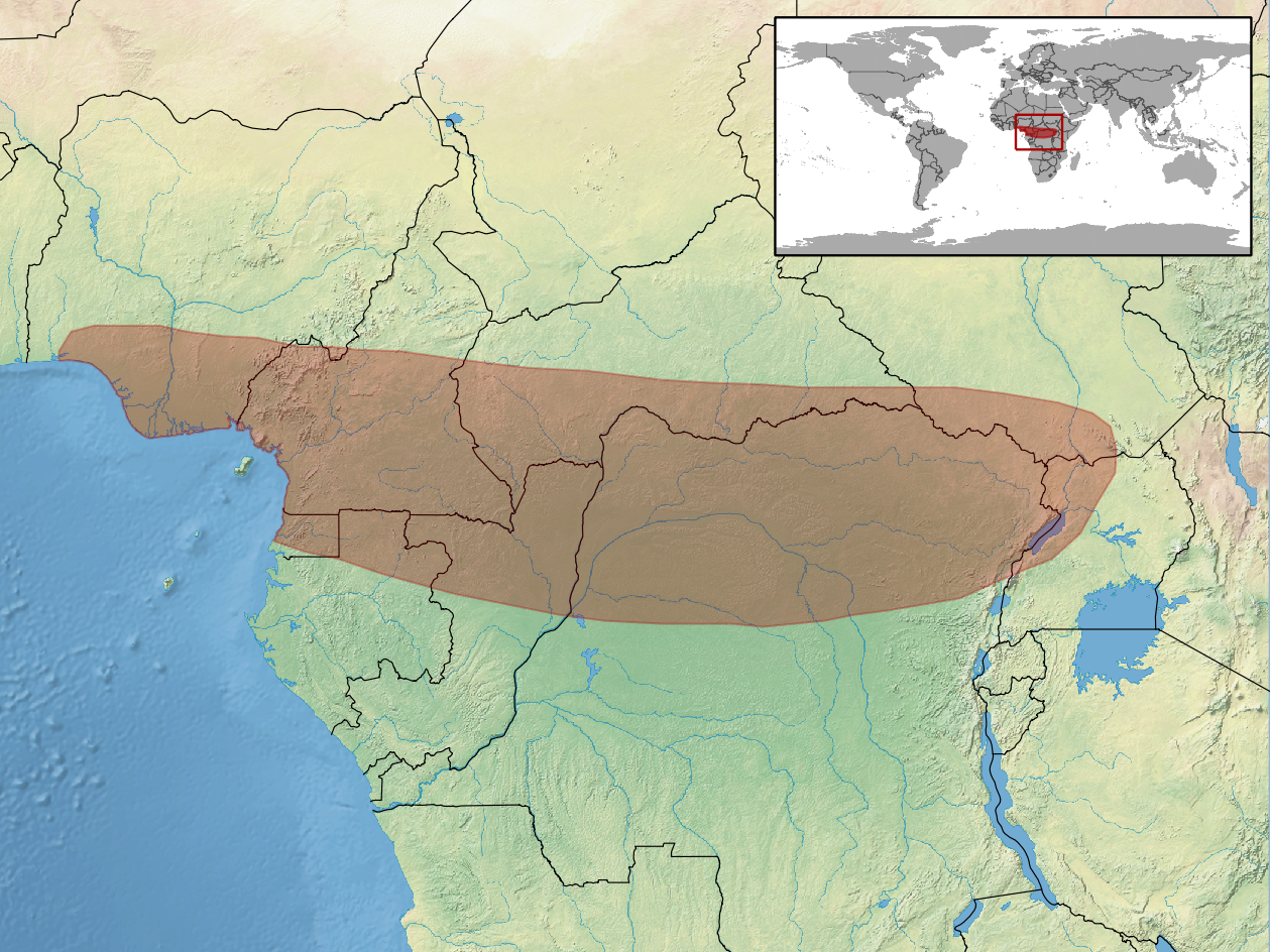 geographic distribution of Leptosiaphos aloysiisabaudiae